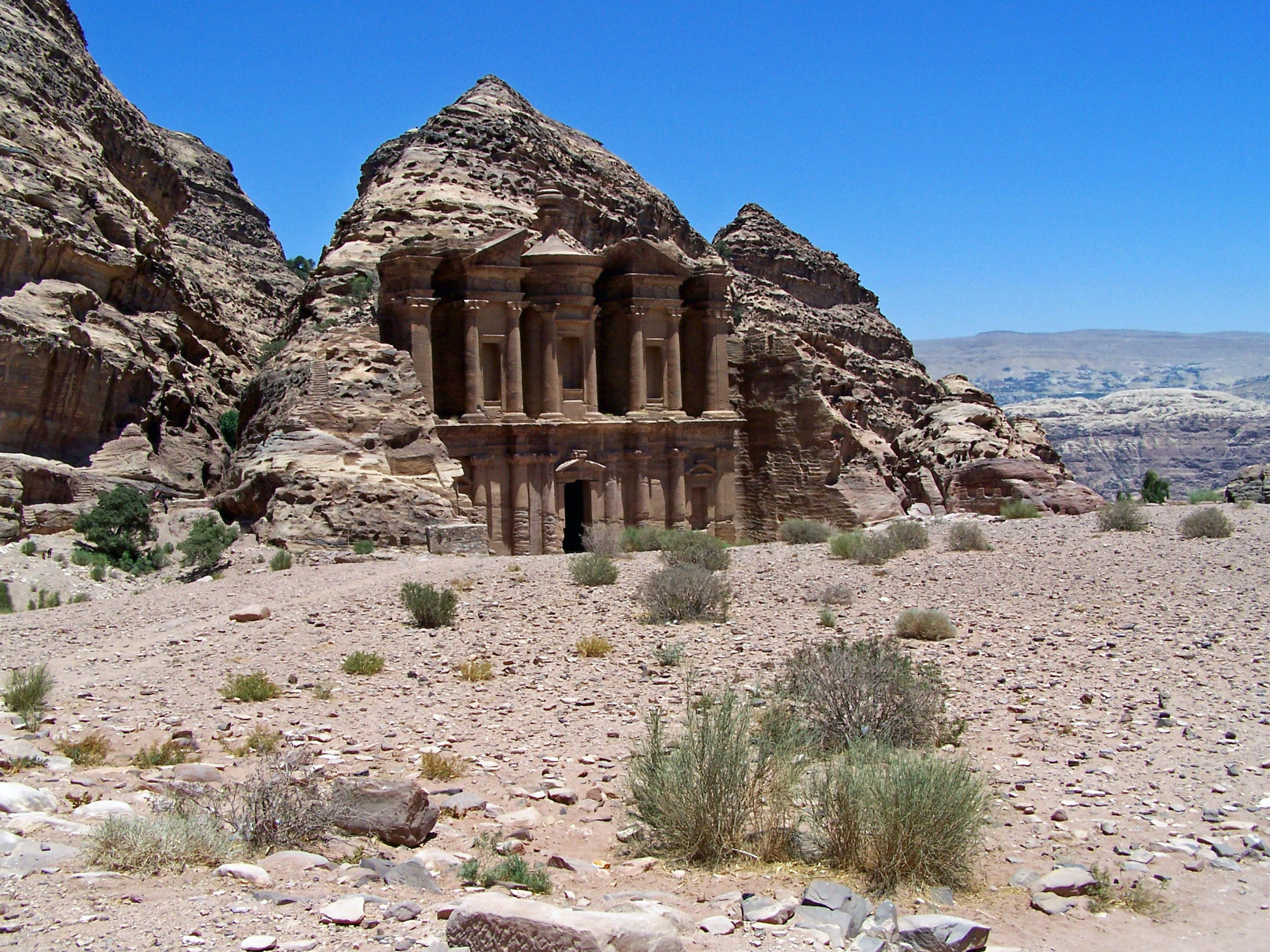 View on Petra's Monastery